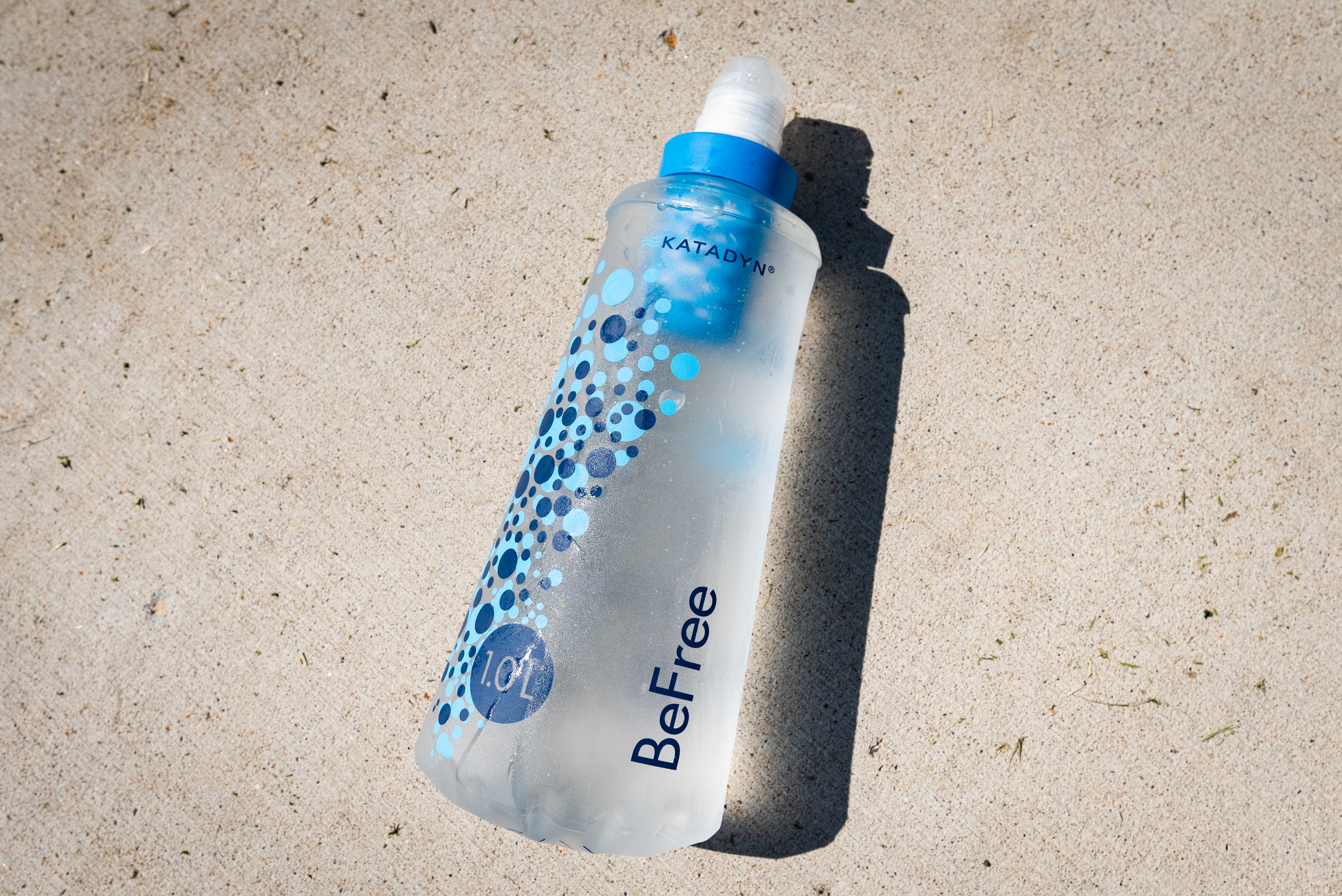 0.1-micron hollow fiber water filtration, collapsible bottle